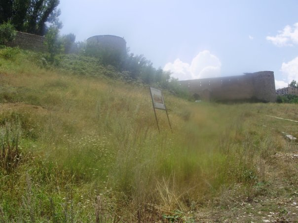 Fortress Shushi, Republic of Mountainous Karabakh ("Artsakh").